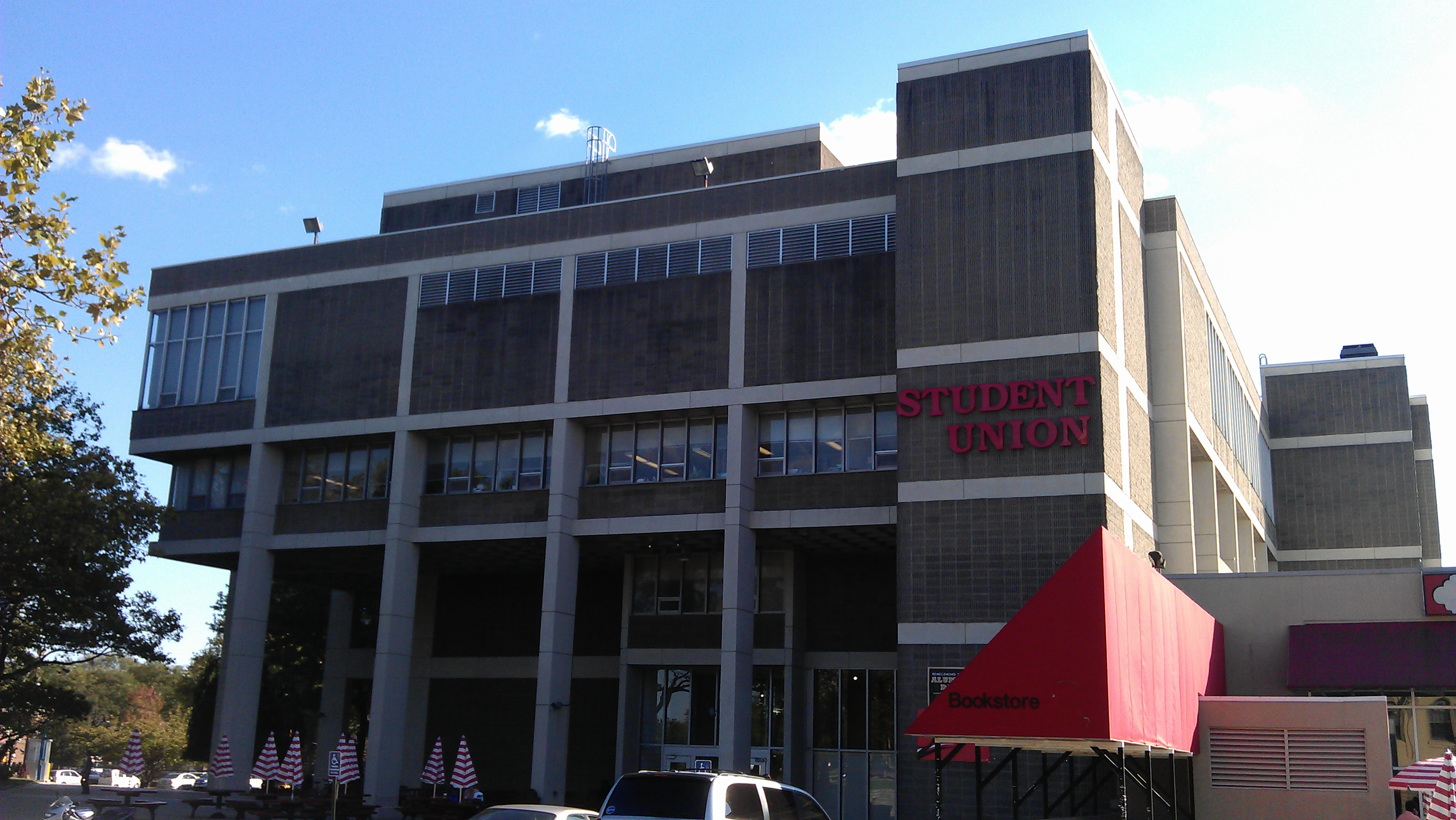 a photograph of the Student Union building at Queens College in Flushing, NY